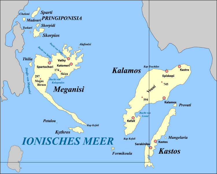 Tilevoides Archipelagos, Greece (German)